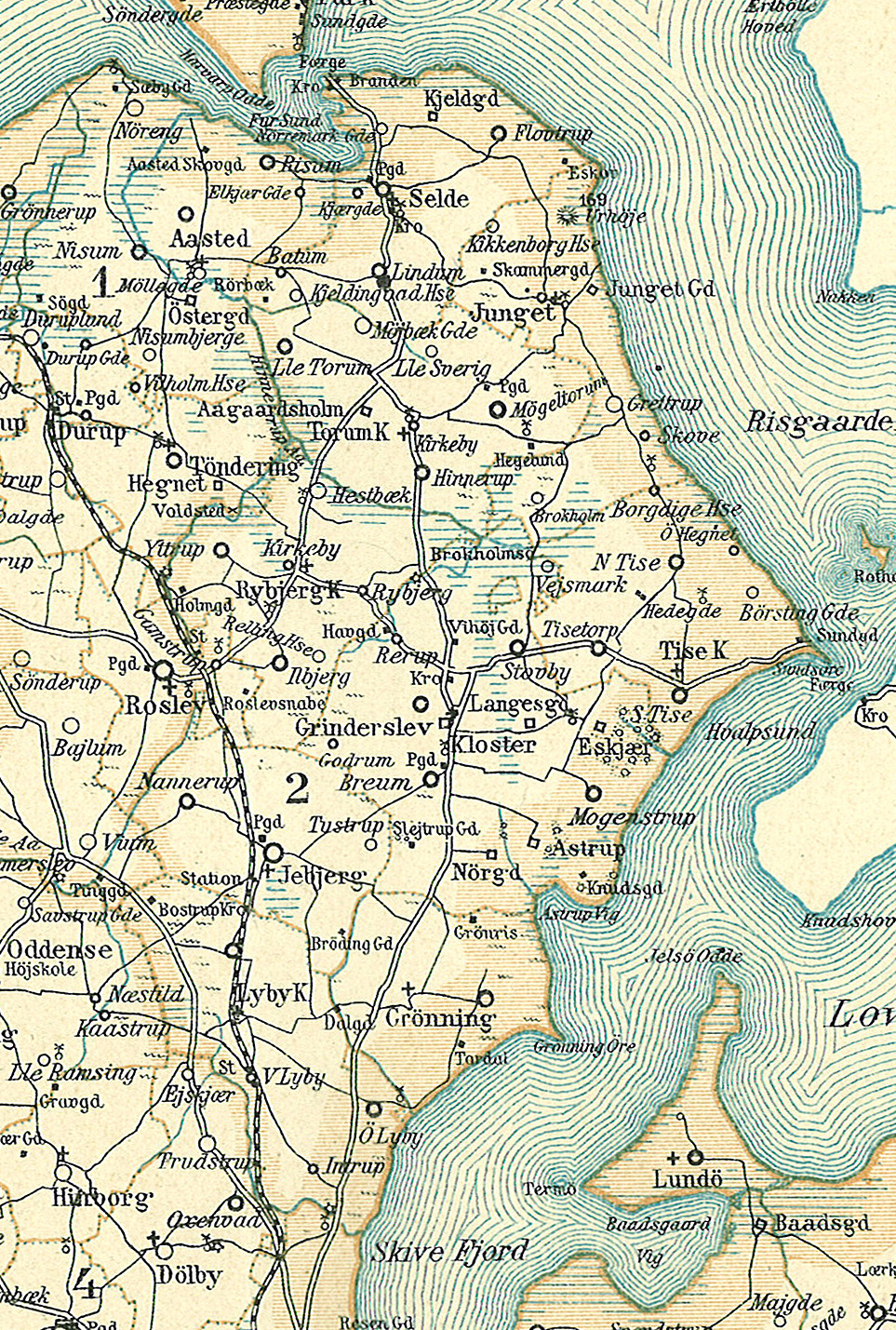 Map of Nørre Herred in the northwestern part of Viborg County in Denmark